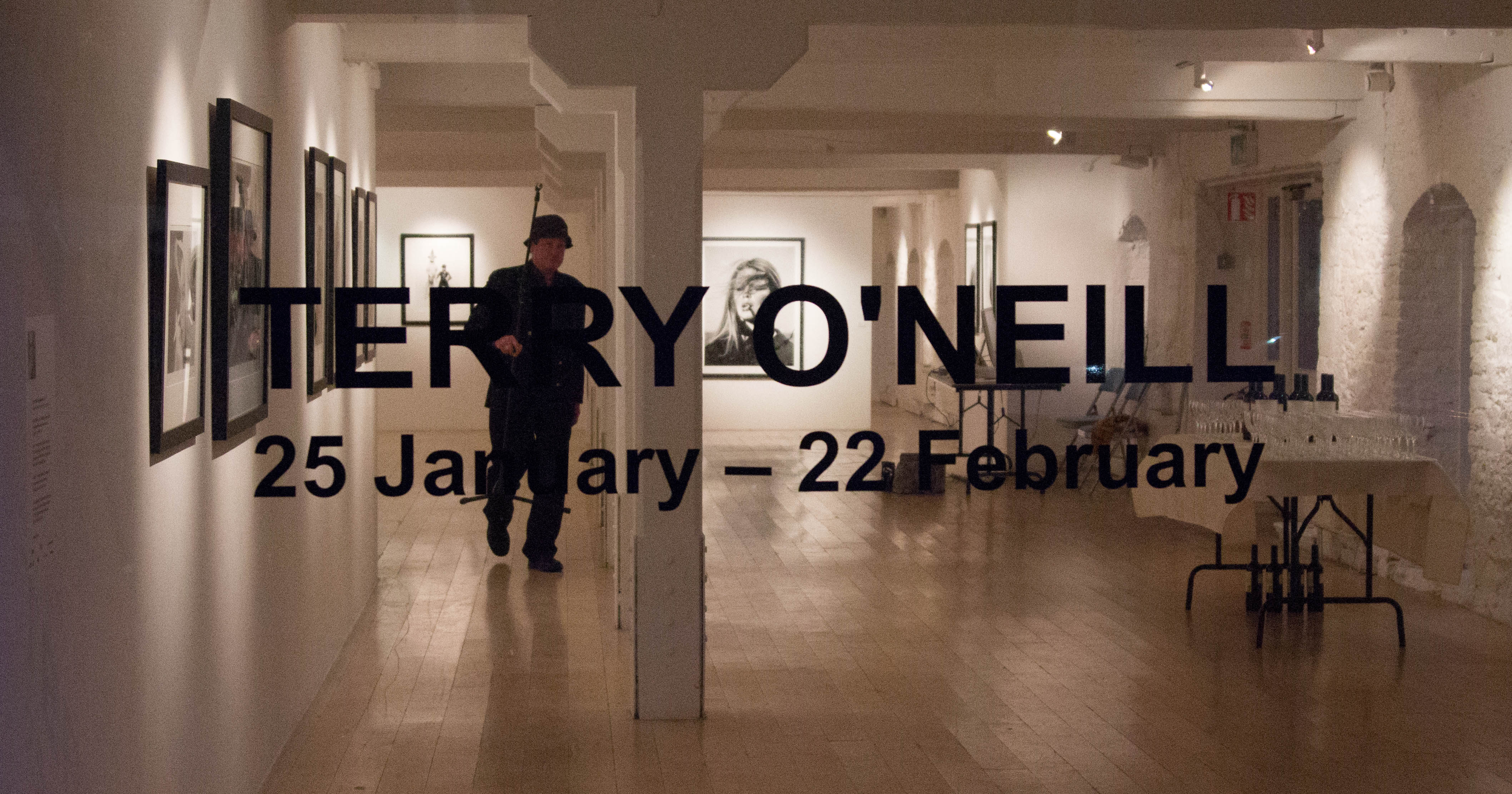 Cork Terry O'Neill-3